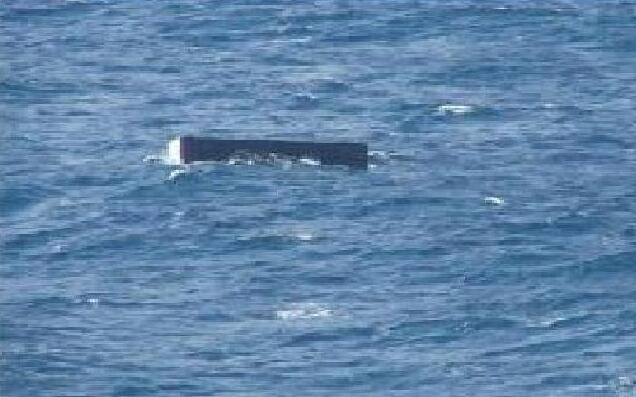 Lost container into sea